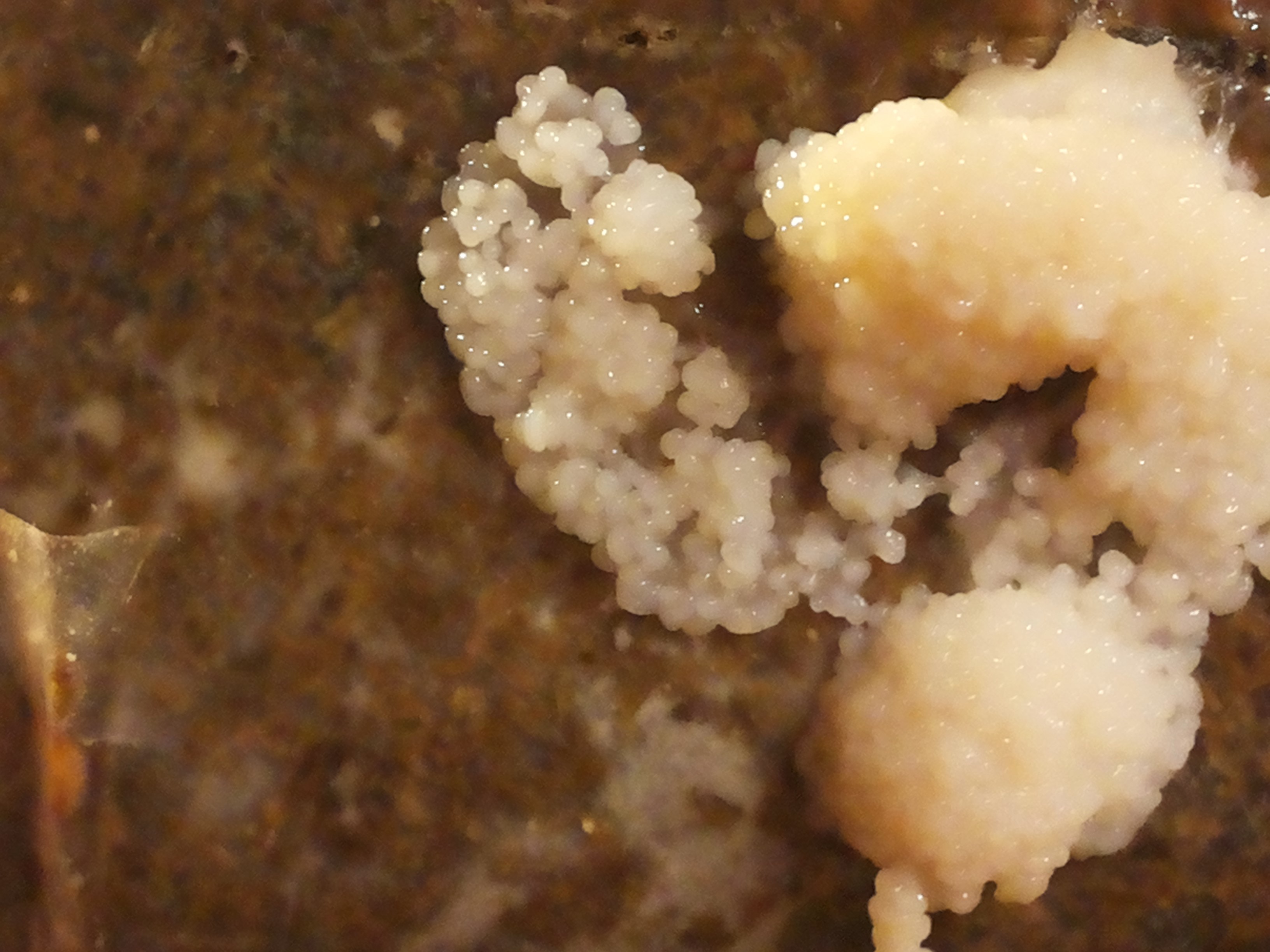 Myxomycete Stemonitis (?).